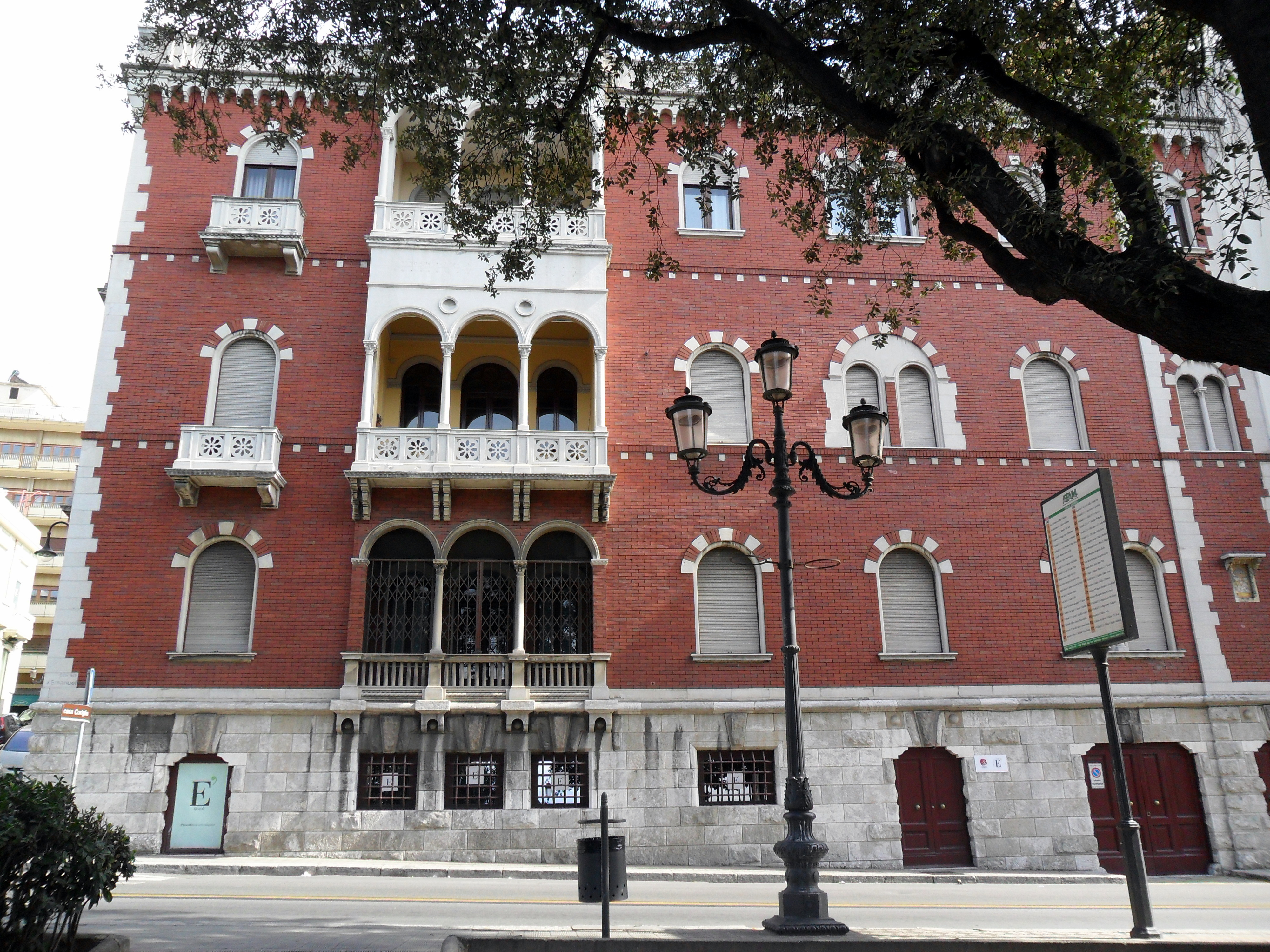 palace in the centre of the city